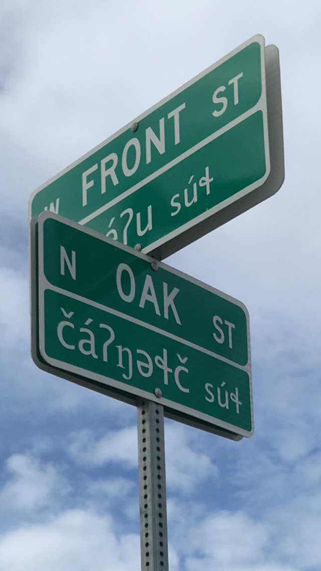 Bilingual English and Klallam language street signs in Port Angeles, Washington, United States. About this sign: (February 14, 2016). "Port Angeles street signs honor Klallam history". Peninsula Daily News.